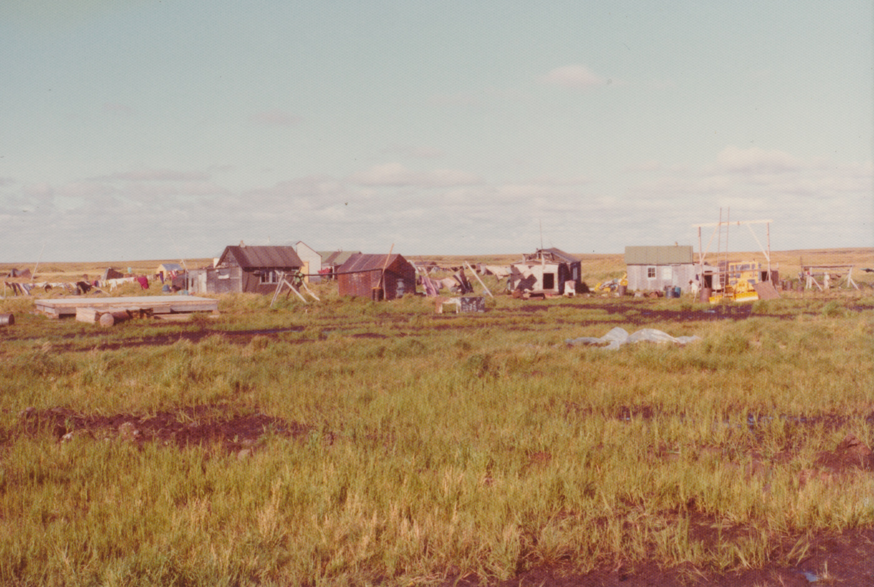 View of houses south of the BIA school. These homes were targeted to be replaced by BIA standard homes.